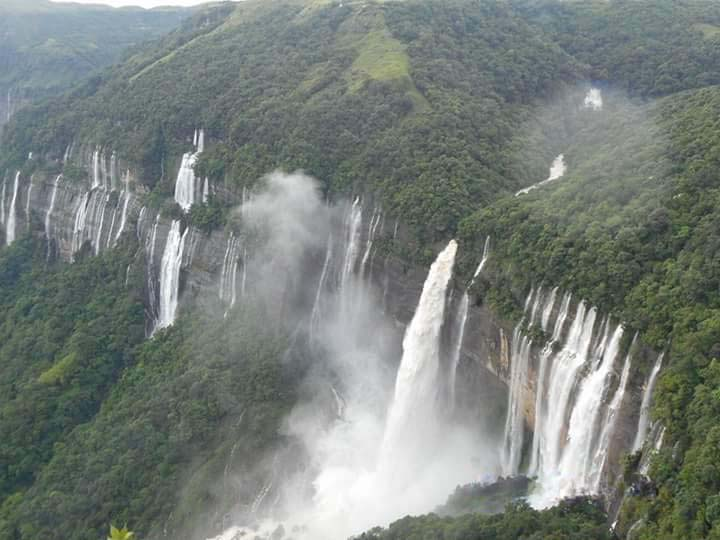 Noakalikai Falls in its full glory right after the rains in the month of May Cherapunji Meghalaya